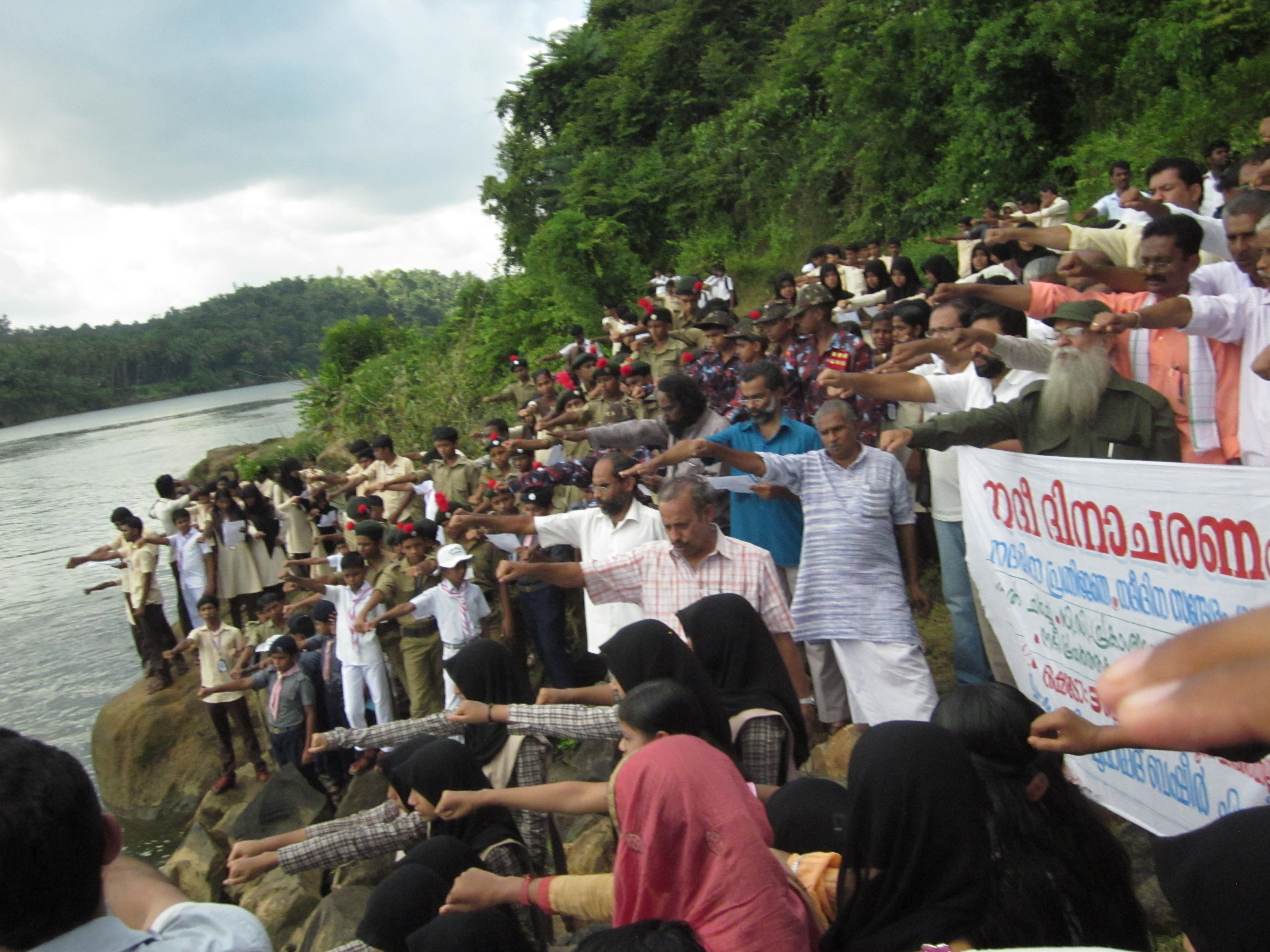 This media file is uploaded with Malayalam loves Wikimedia event - 3.